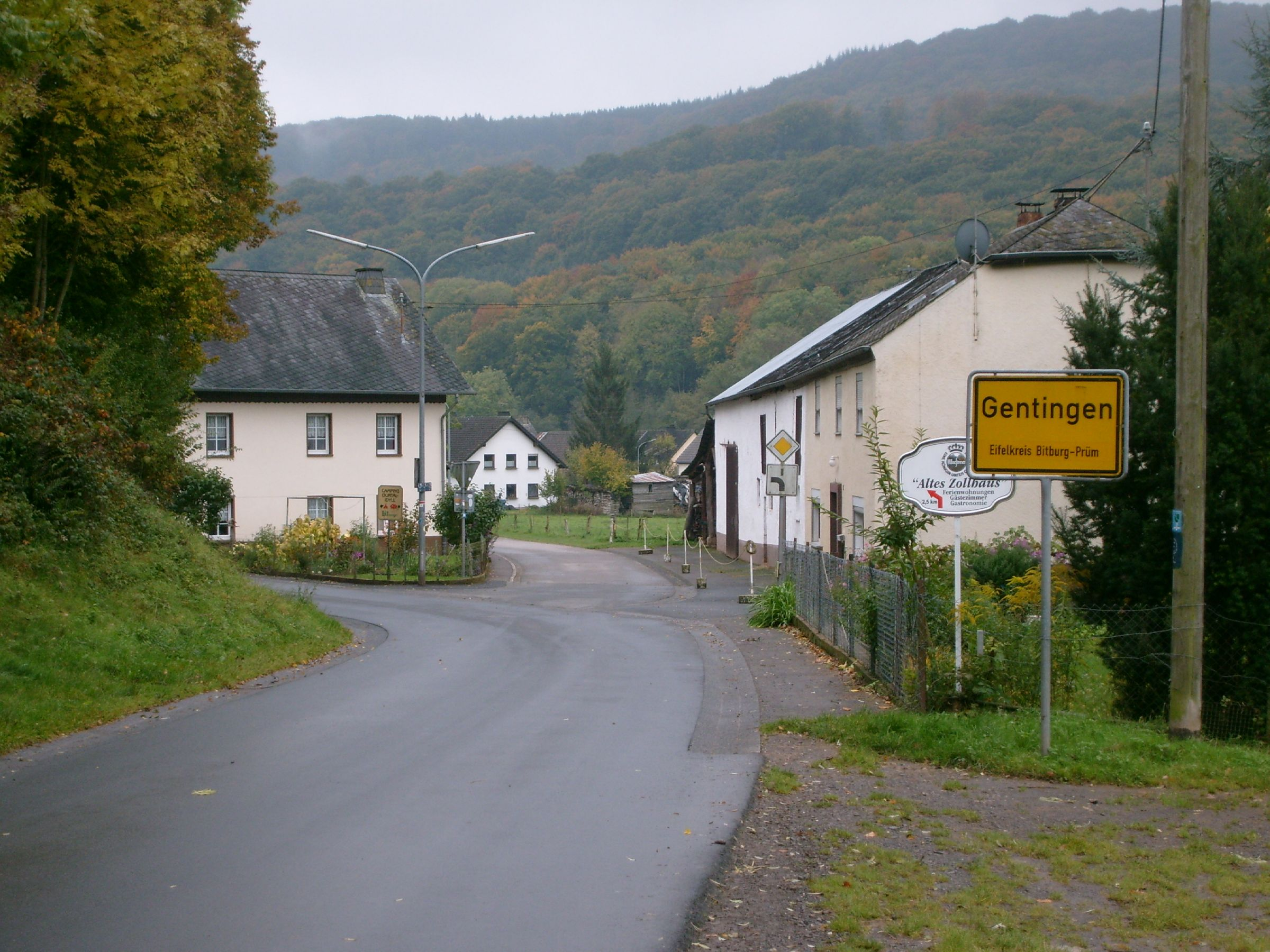 The village of Gentingen, Rhineland-Palatinate, Germany.